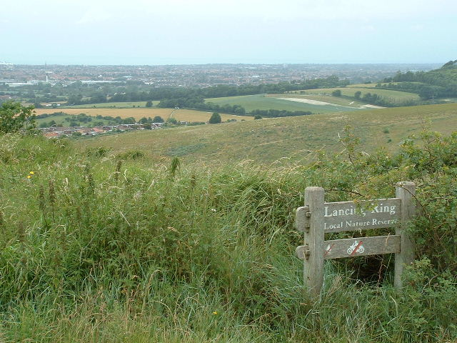 Lancing Ring. Looking SW from Lancing ring across the square towards the housing at Cokeham.